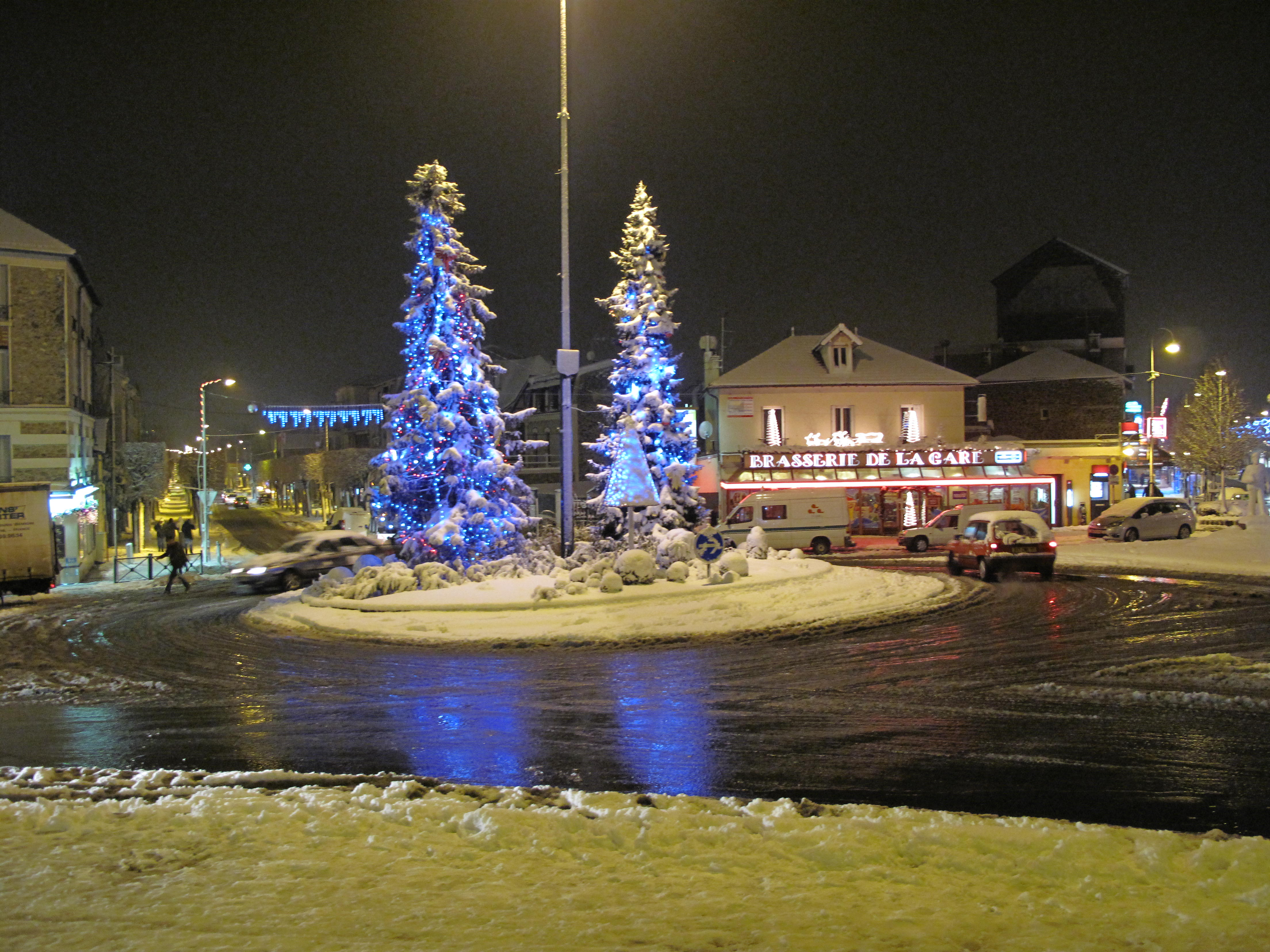 Place Charles-de-Gaulle (place of the railway station) in Vaires-sur-Marne, Seine-et-Marne, in winter, France.